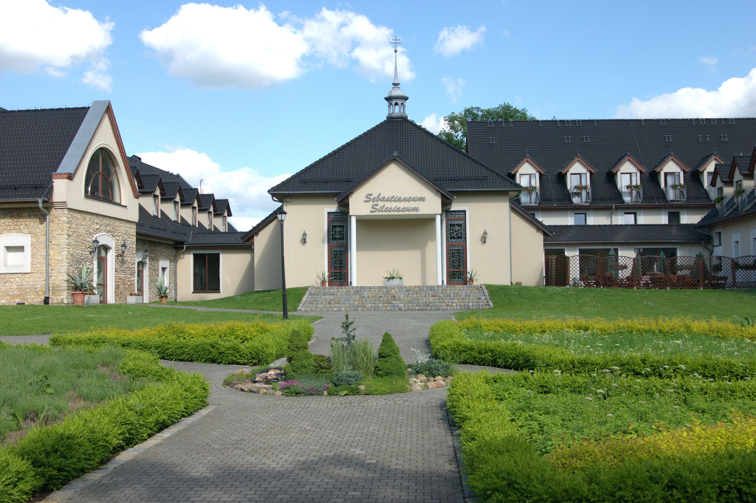 Kamień Śląski